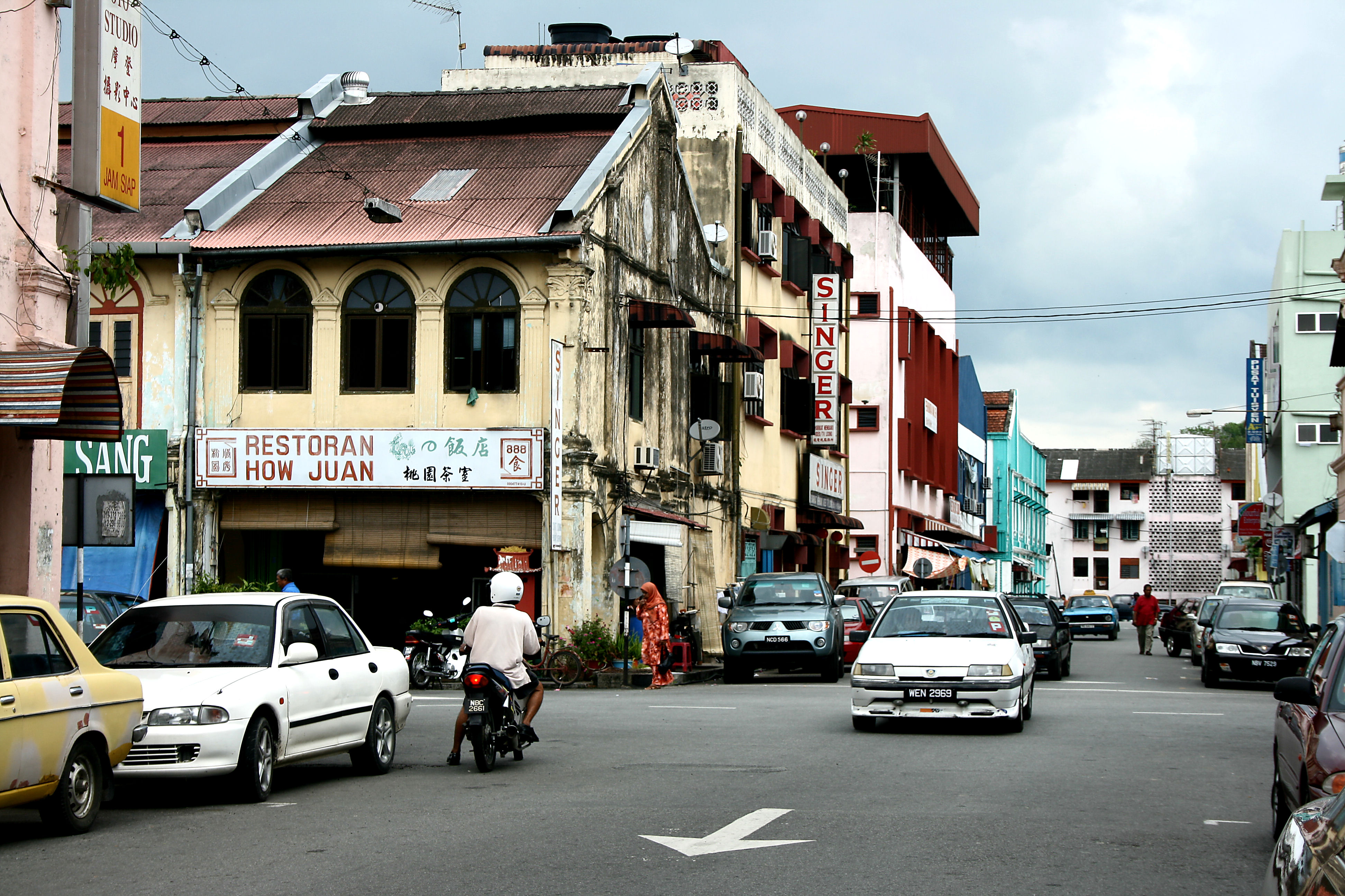 A street in Kuala Pilah, Negeri Sembilan, Malaysia in March 2009.